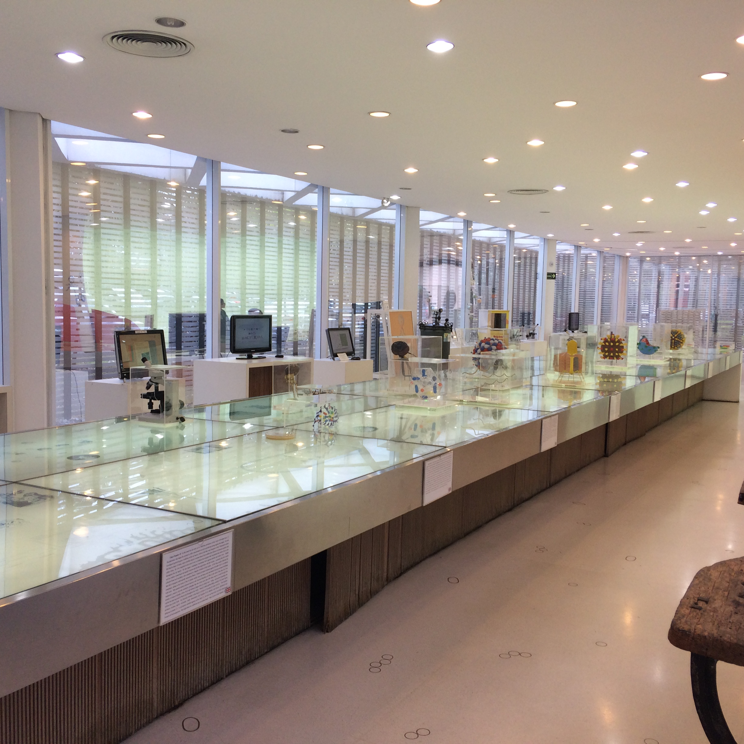 Interior do Museu.